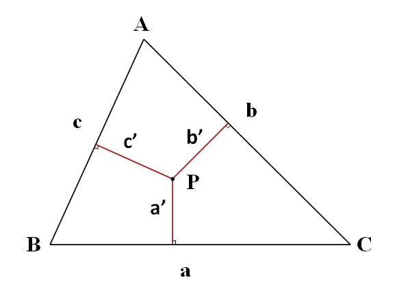 Trilinear coordinates in a triangle